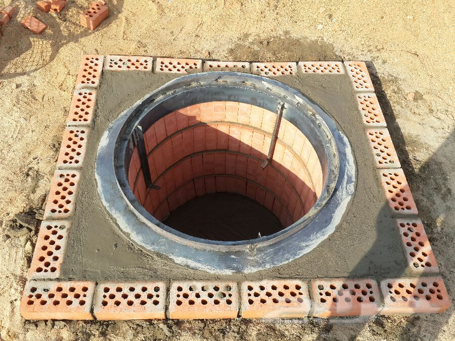 A pit built specifically for Mandi.